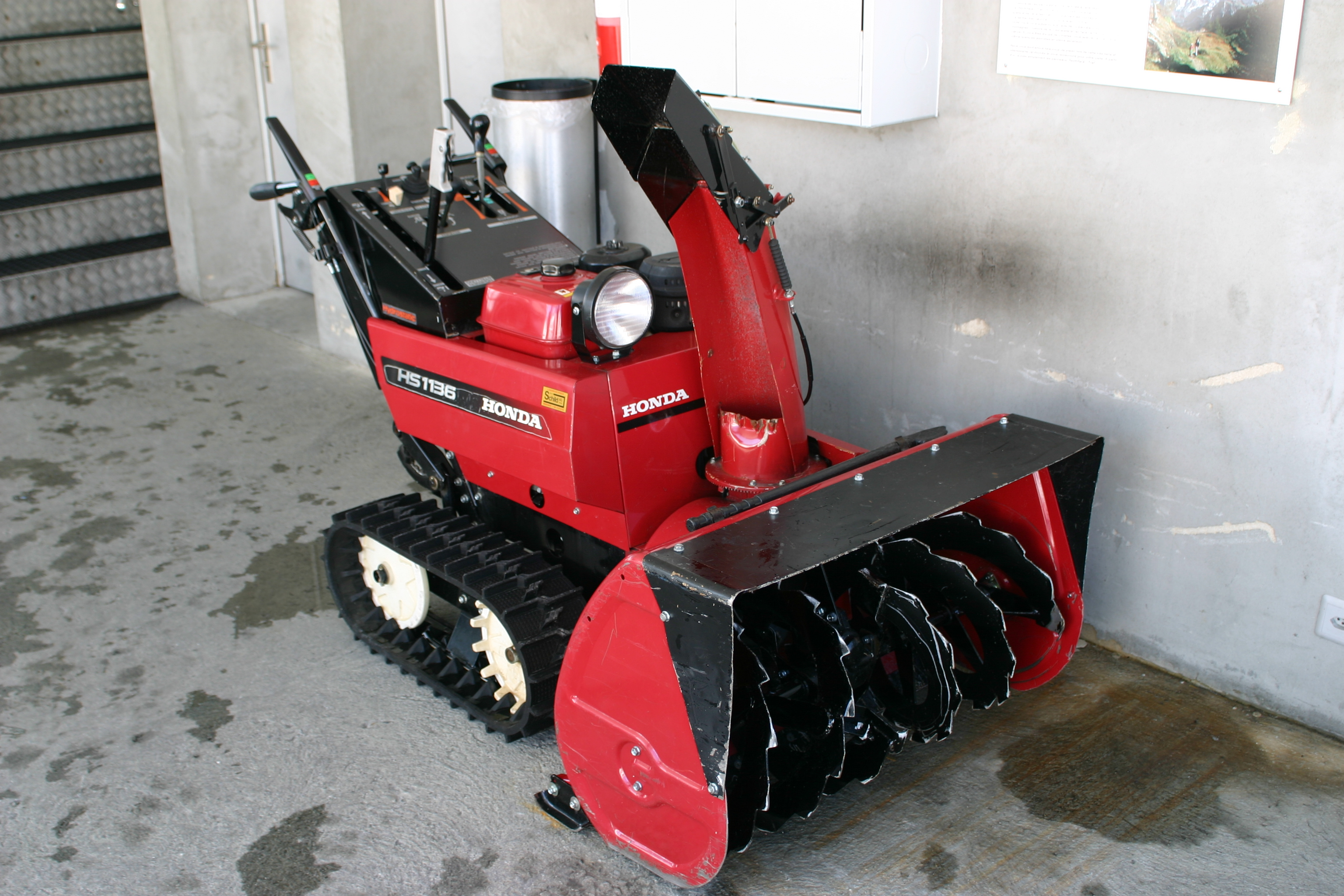 A Honda HS1136 snowblower